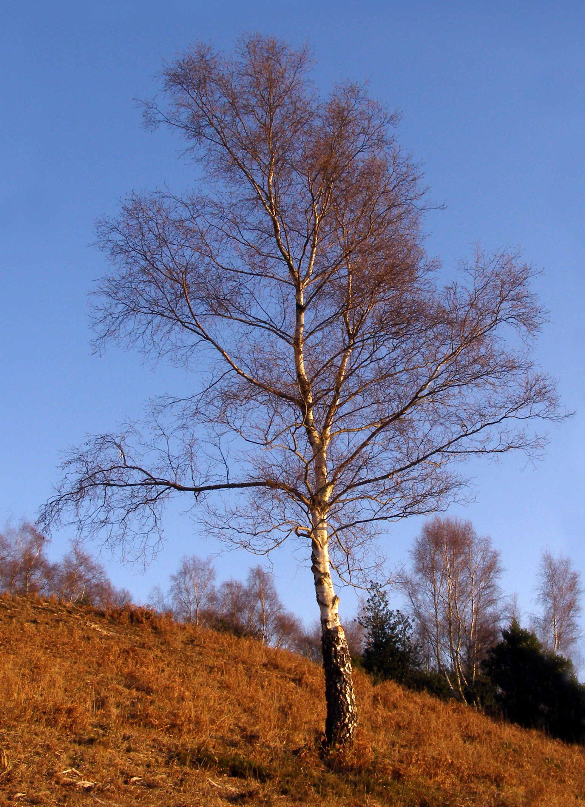 Betula pendula in winter, New Forest, Hampshire, England, 50°53'04"N 1°37'10"W, 80 m altitude.